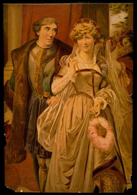 Chromolithograph from The Library of Congress